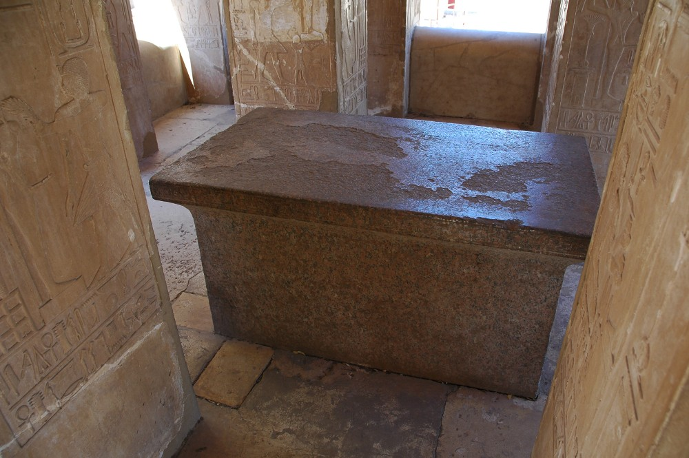 White Chapel (Chapelle blanche) of Sesostris I. at Karnak, 12th Dynasty, Open Air Museum Karnak